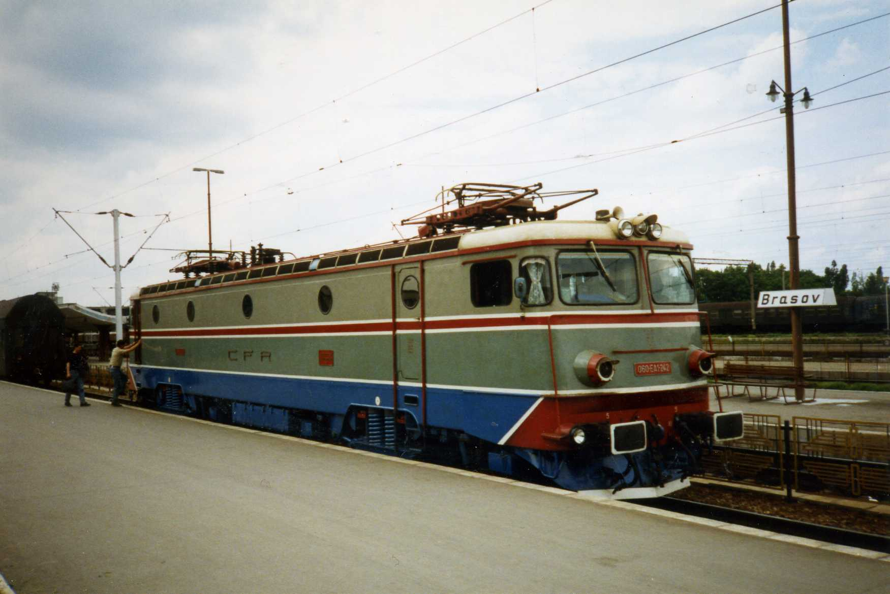 CFR electric locomotive 060 EA1 242 at Braşov Gara, Romania, May 1994. – I think these EA1 locomotives from Electroputere are now numbered class 41. A total of 932 EA and EA1 locomotives of this type were delivered to CFR in Romania, which are now reclassified 40 and 41 now. The class 41 was a higher speed version of the 40 (EA1 vs EA) viz 180 kph rather than 120 kph.